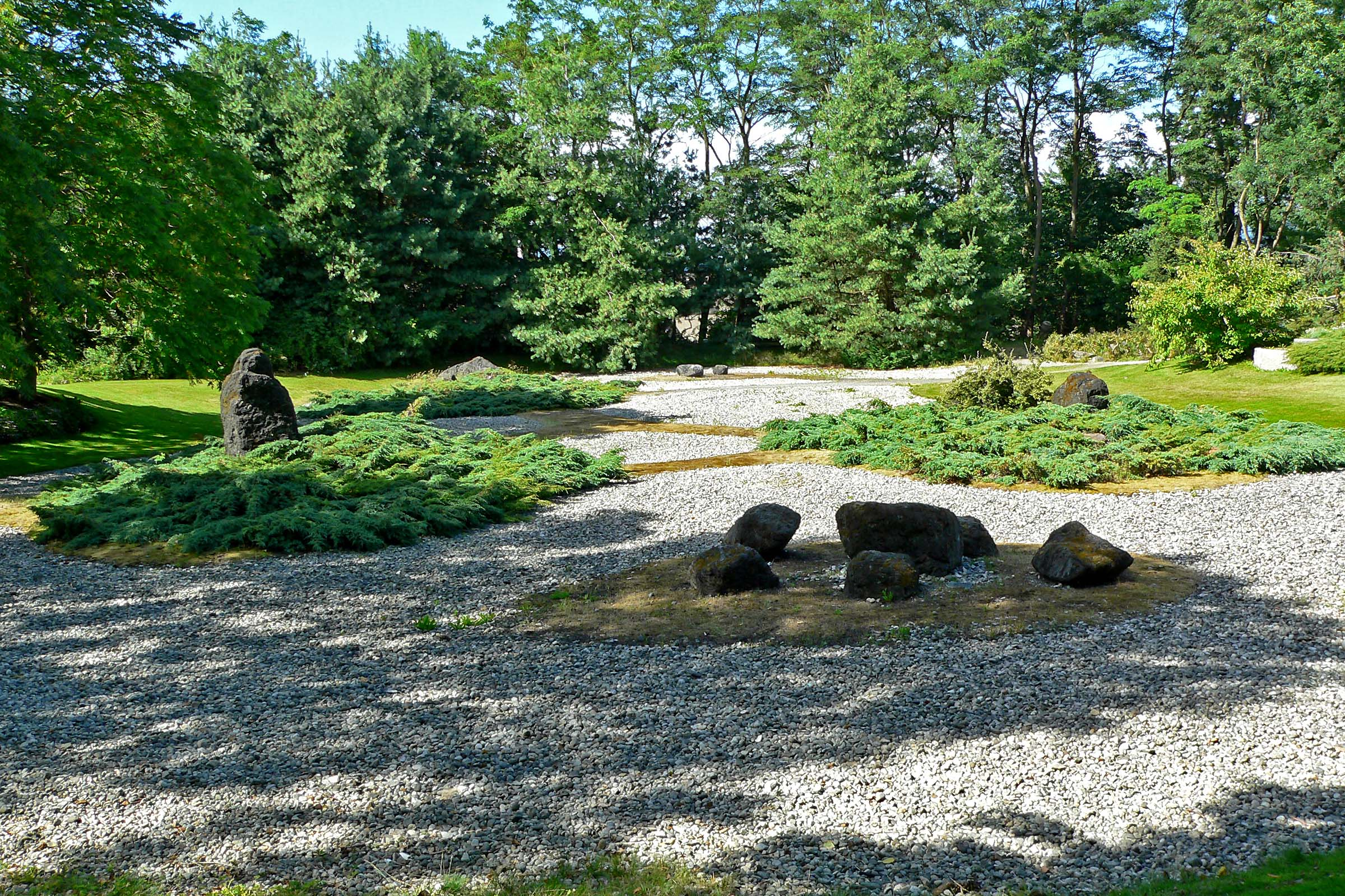 Photo of rock garden in VanDusen Botanical Garden in Vancouver